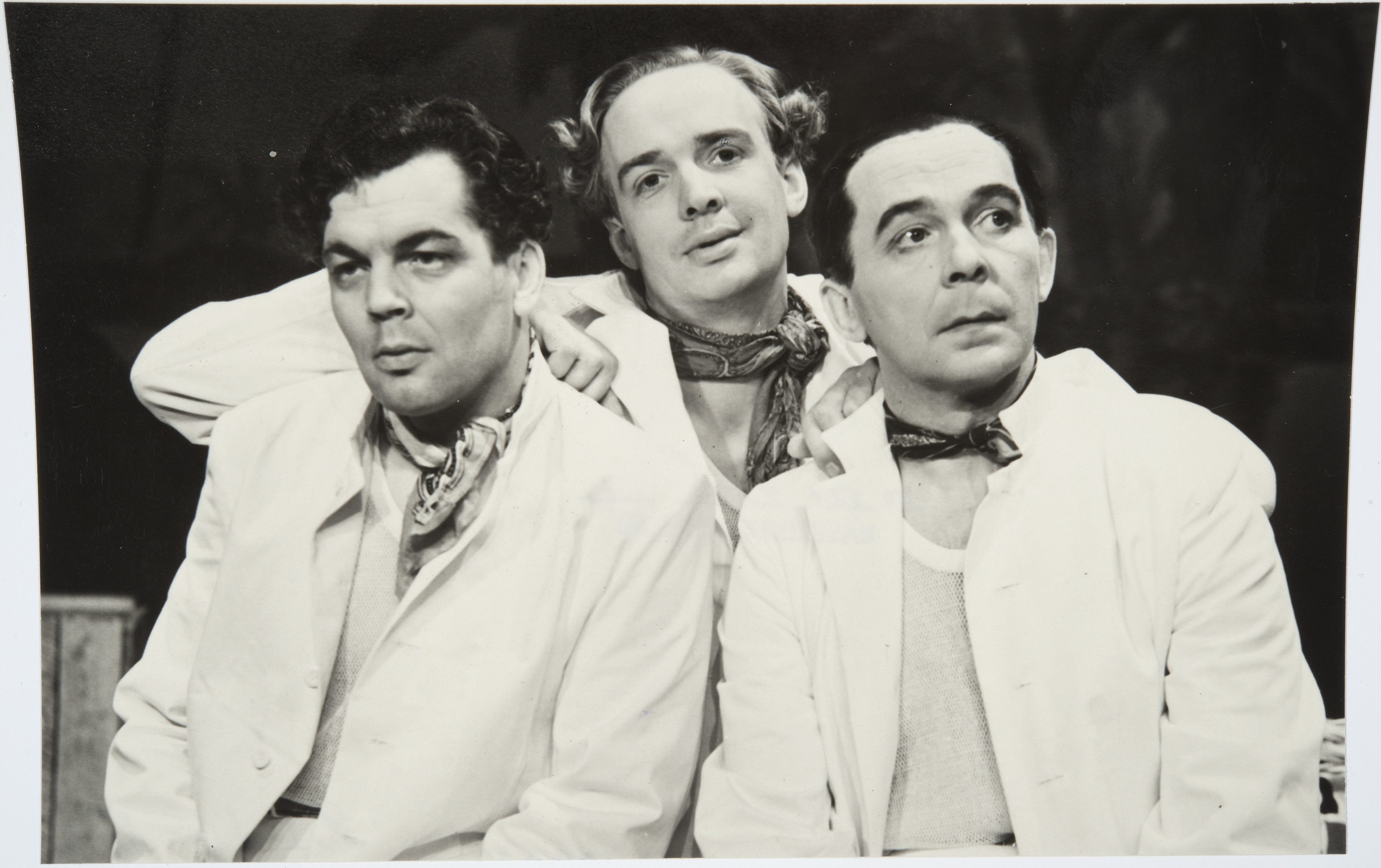 Photograph of the Finnish actors Reino Kalliolahti, Kosti Klemelä and Ossi Kostia at a Tampere production of Albert Husson’s La Cuisine des anges.